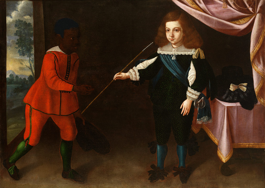 Infante Afonso of Portugal and a black page (c. 1653), by José de Avelar Rebelo. Currently in Museu de Évora, Portugal.